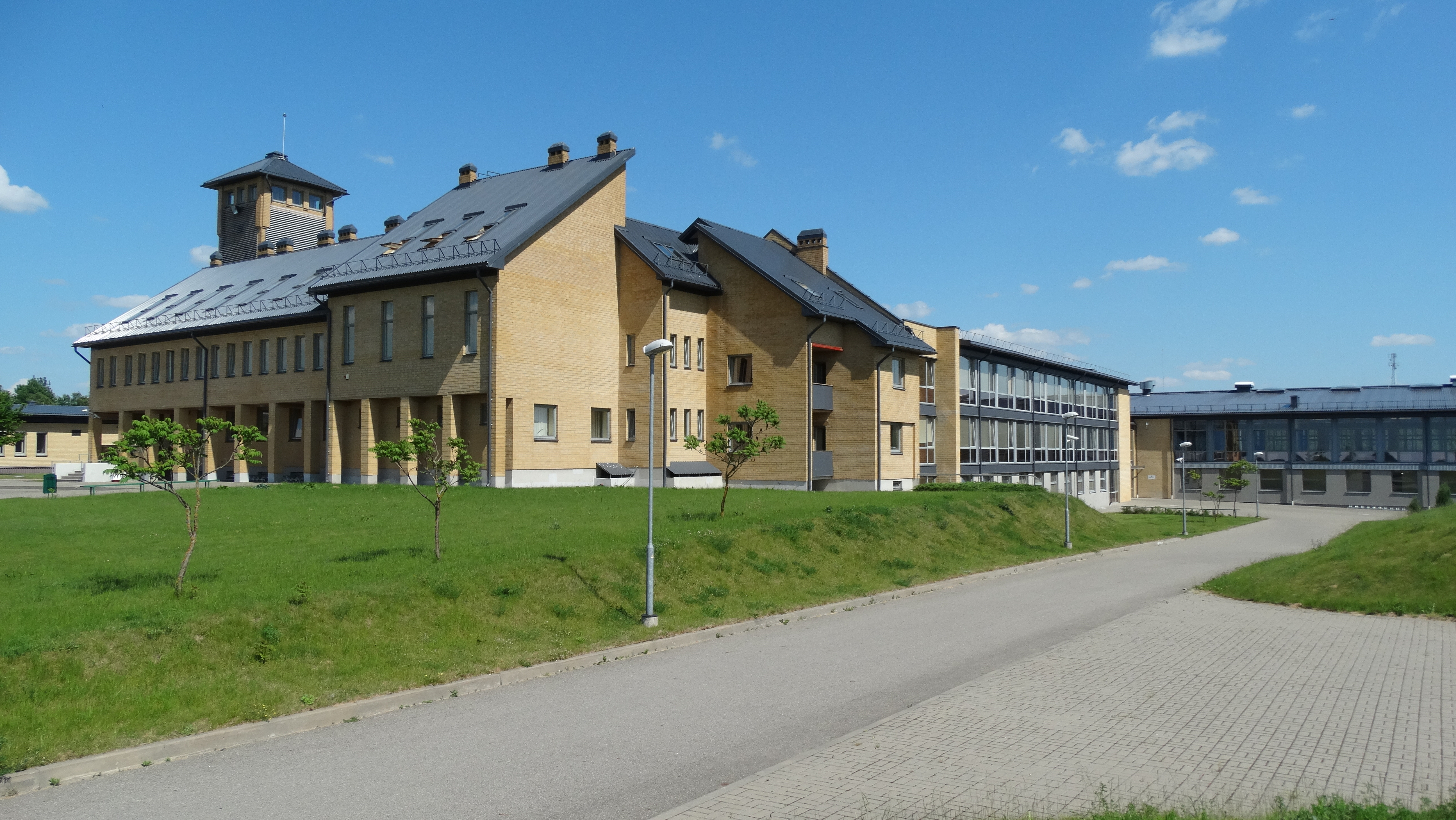 School of border guards, Medininkai, Vilnius District, Lithuania